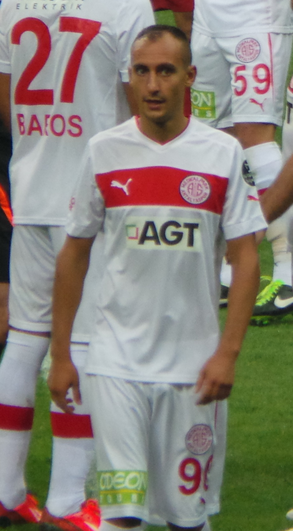 Natxo Insa with M.P. Antalyaspor